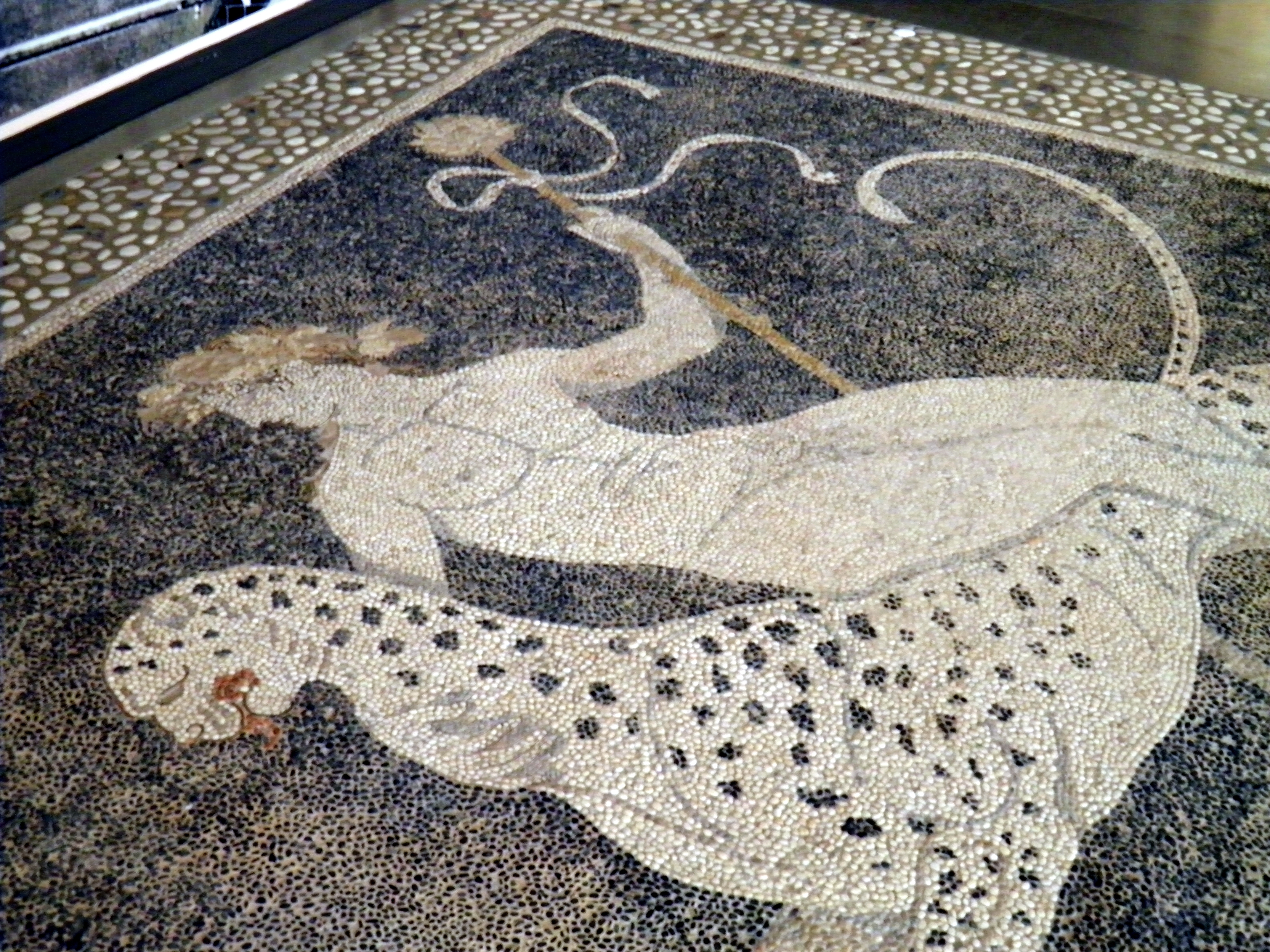 The god Dionysos is seated on the back of a panther, his upraised arm brandishing the thyrsus, the long staff twined with ivy tha was his usual emblem. His body and that of the panther are executed with white tiles, making them stand out against the black background, while the sculptural volumes are highlighted with chiaroscuro shading effected with grey pebbles. The outlines are details of the god's head, hand and feet are delineated with lead wire, while strips of fired clay were used in the areas of the eyes and curls. Green artificial pebbles are worked into the wreath and staff, and red ones ornament the trailing ribbons. The chief characteristics of this scene are the harmony of its composition, the calligraphic rendering of the details and the sensitive use of colour. The subject of Dionysos on a panther or in a chariot drawn by panthers, usually in a sanctuary and accompanied by his triumphal train, belonged to the cycle of the «manifest deities» commonly used on Attic pottery on the 4th century. The area in front of the threshold of the banqueting room was also decorated with a mosaic scene: a griffin seizing a deer.